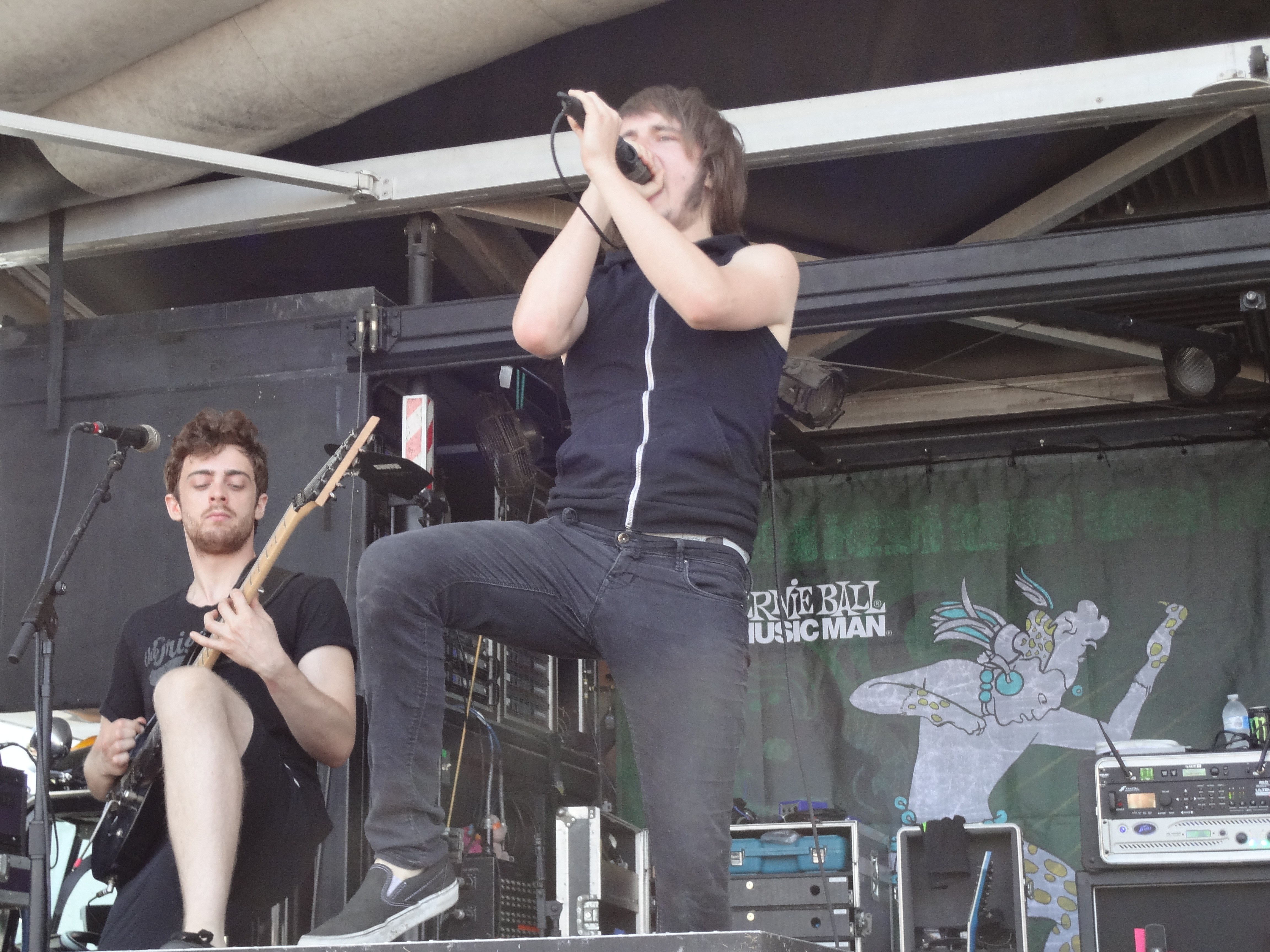 Rise To Remain Live at Warped Tour Pomona CA